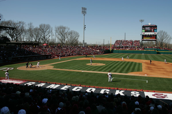 View of USC's new ballpark from behind the Gamecock dugout